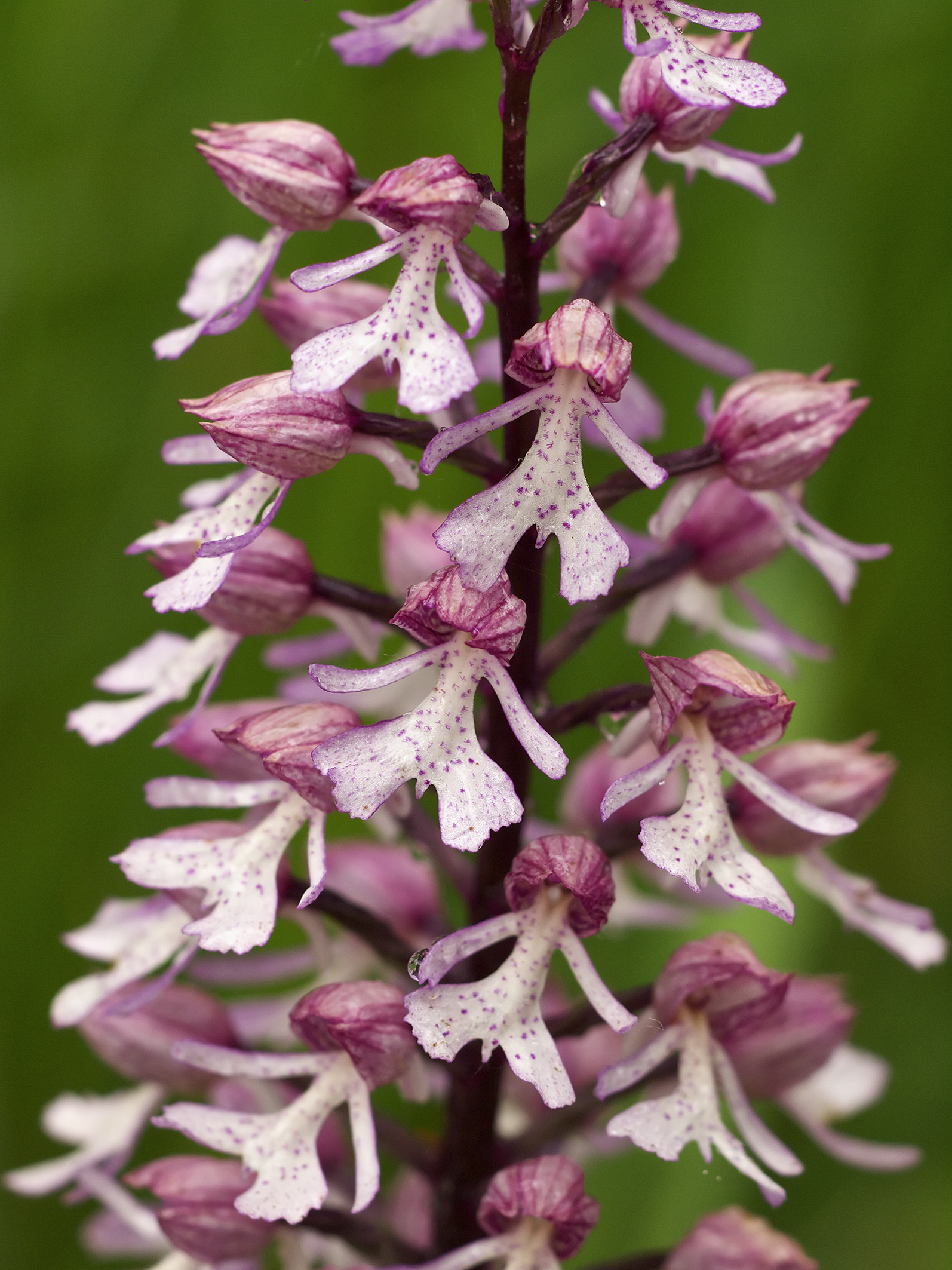 Orchis x hybrida, an natural hybrid between Military Orchid (Orchis militaris) and Lady Orchid (Orchis purpurea), Leutra valley near Jena, Thuringia, Germany